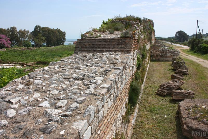 Nikopolis Greece